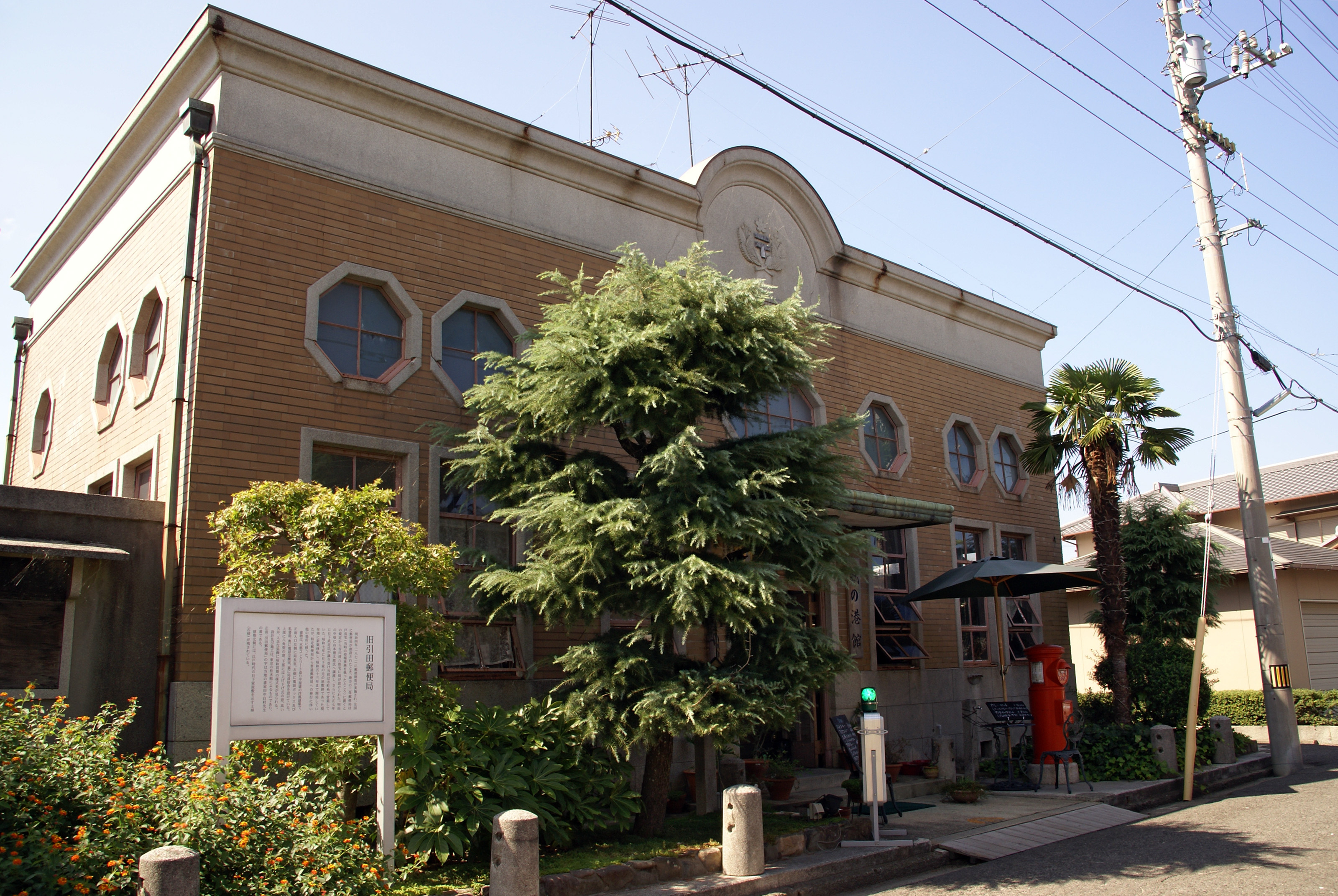 Old Hiketa Post Office in Hiketa, Higashikagawa, Kagawa prefecture, Japan